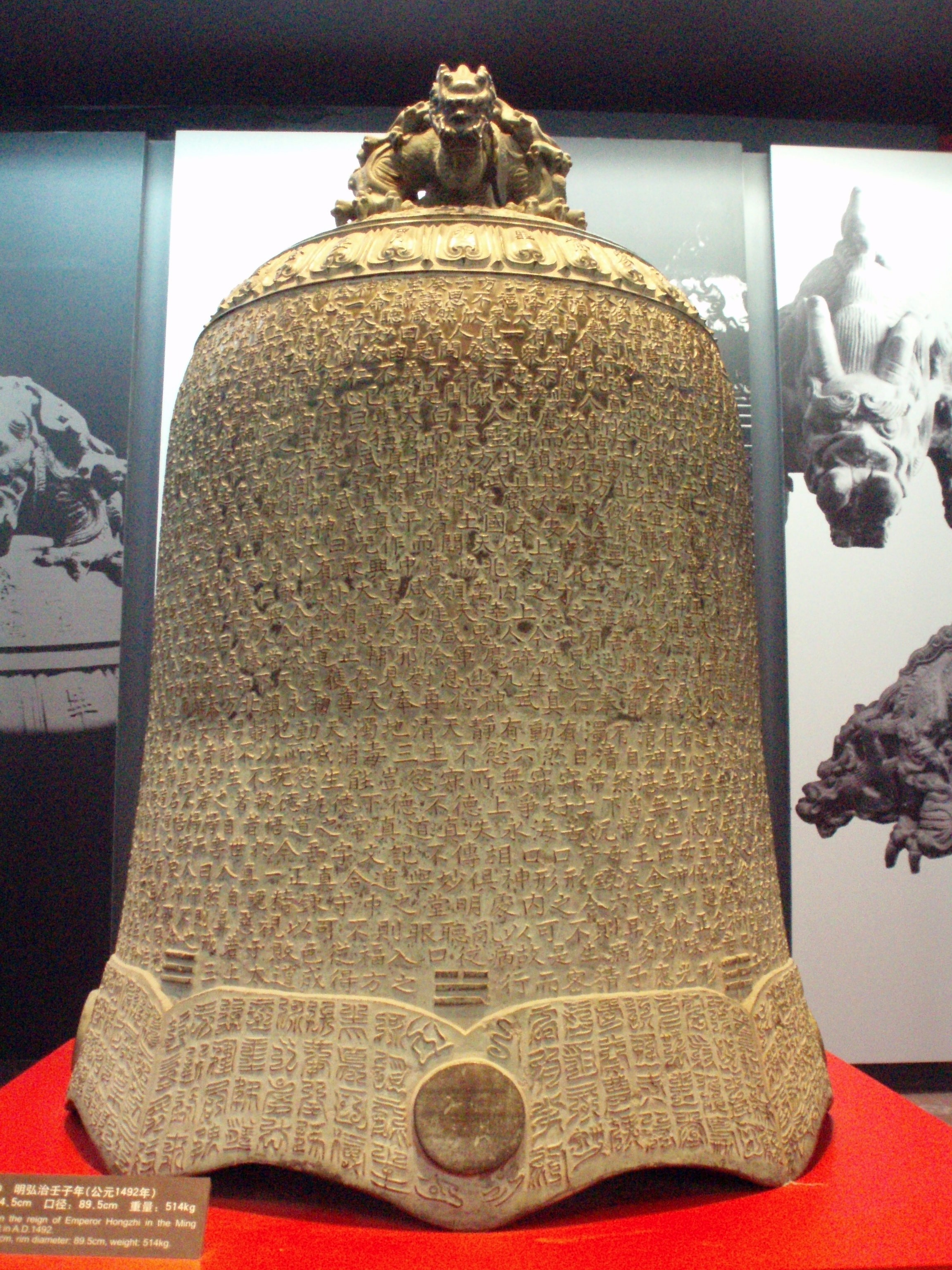 One of the many bells in the Big Bell Temple - a bell made in 1492. 中文（香港）: 此鐘鑄於1492年（明弘治壬子年），是大鐘寺內眾多藏品中的其中一件。